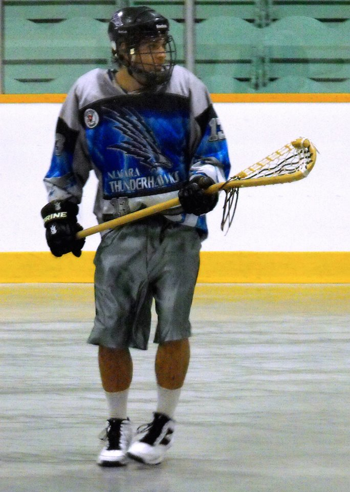 These images of Ontario Junior B Lacrosse Action action during the 2014 season are taken by Devan Mighton.